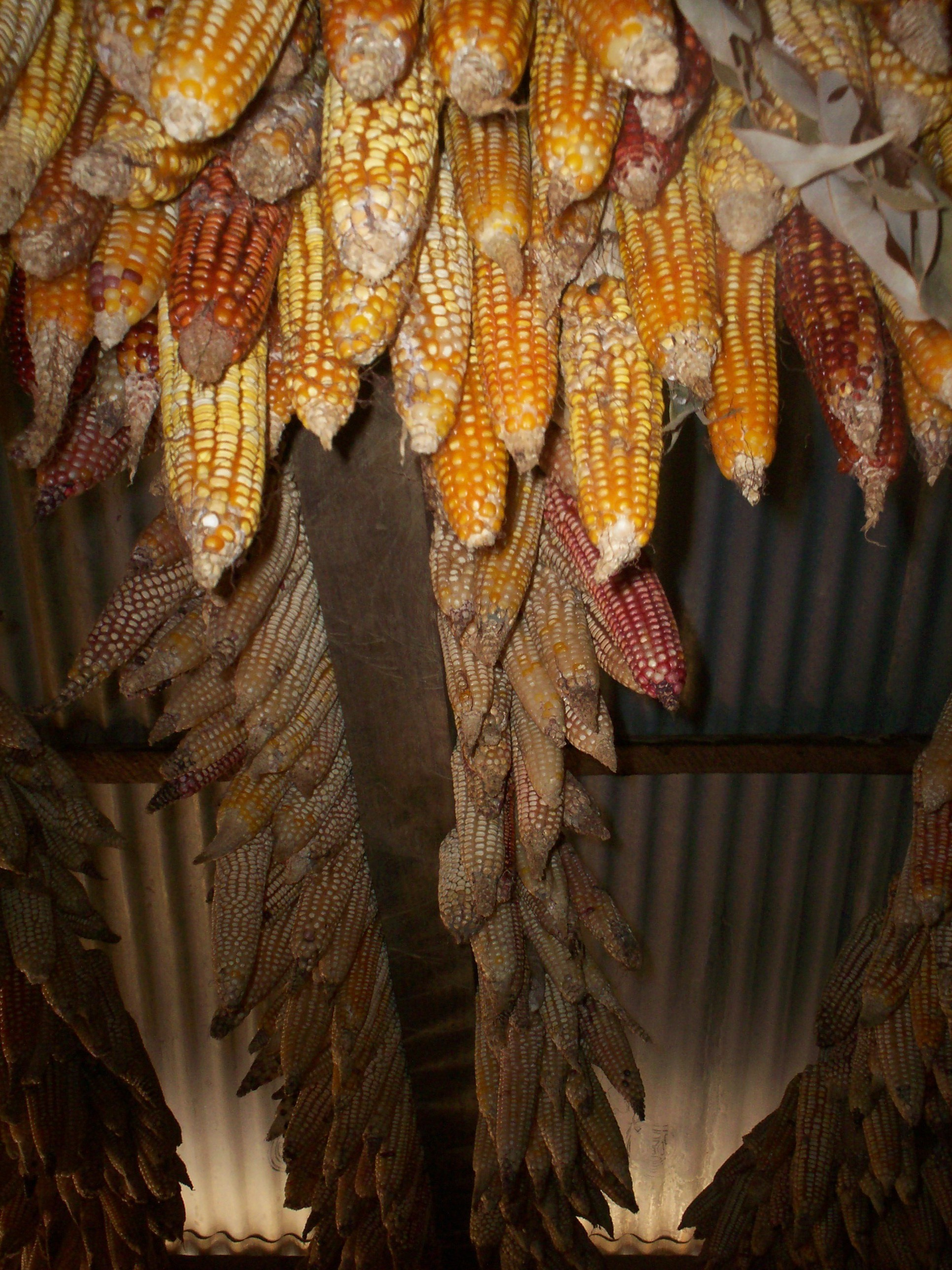 Corncobs in a Mazatec house at Eloxochitlán de Flores Magón, Oaxaca, México